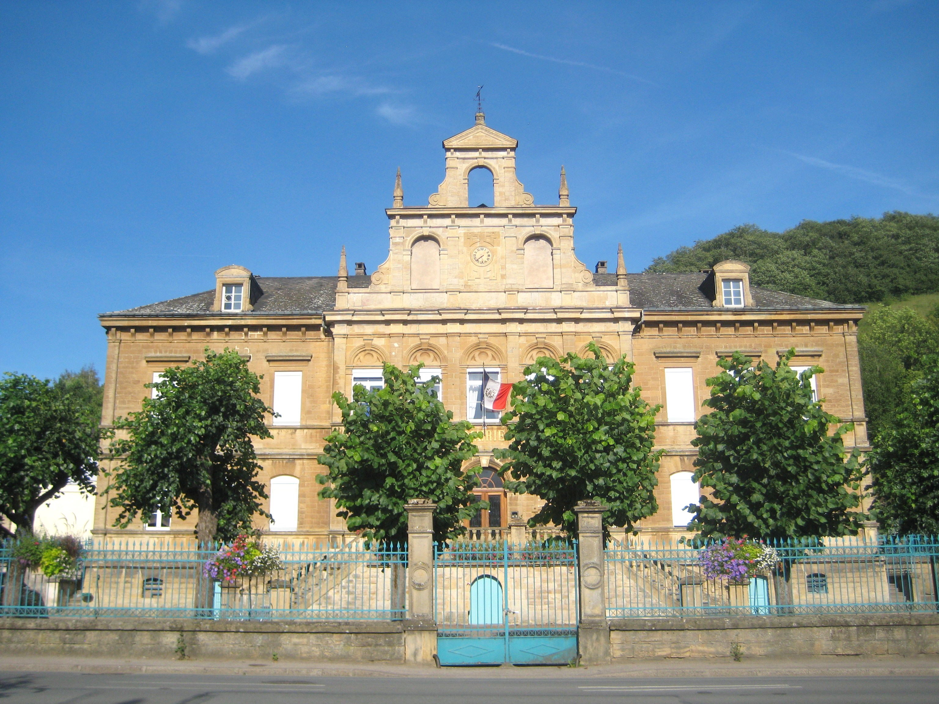 Description mairie Fontoy Date25 August 2011Sourcemon appareil photoAuthorAimelaimePermission (Reusing this file) mairie Fontoy